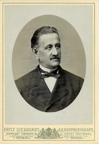 Manuel Girona y Agrafel ca 1860